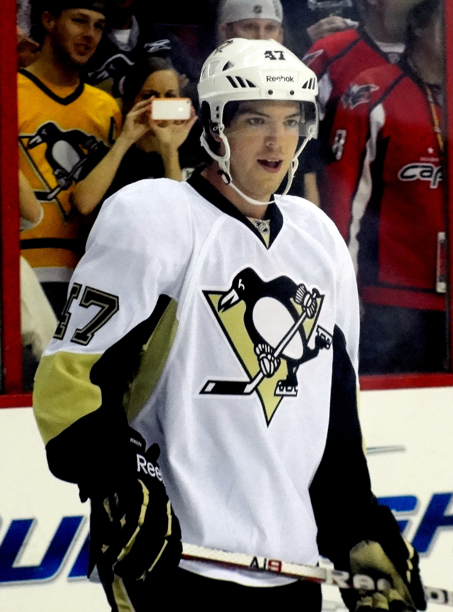 Simon Despres makes his NHL debut for the Pittsburgh Penguins against the Washington Capitals December 1, 2011 at Verizon Center in Washington, D.C. The Pens would go on to win 2-1.